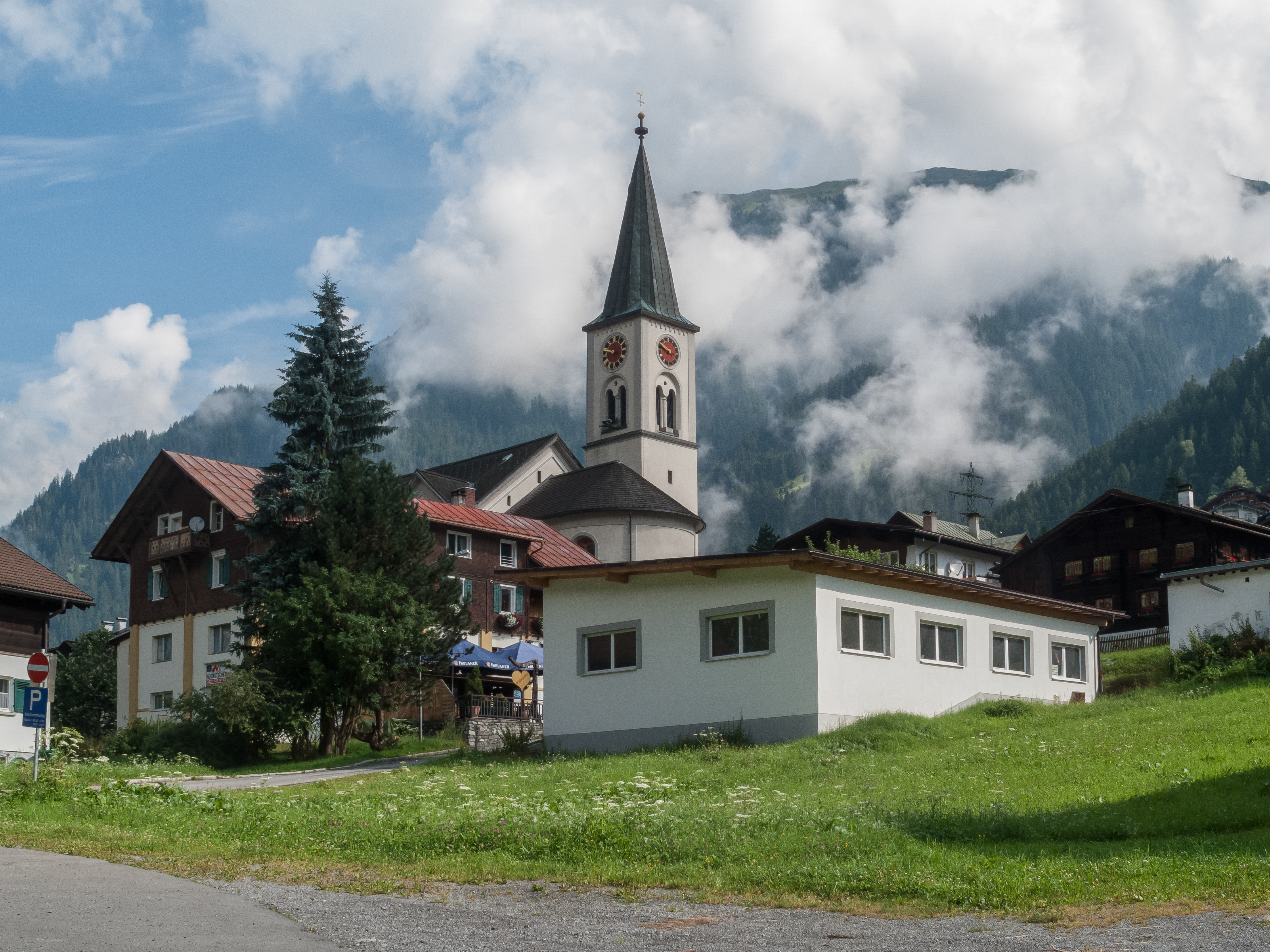 Gaschurn, church (katholische Pfarrkirche heilige Michael) in the street